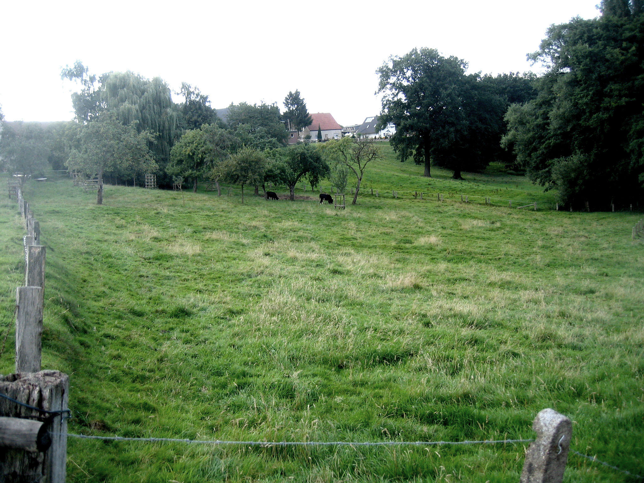 Siek in the town of Rödinghausen-Dono, Germany.